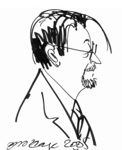 A caricature of Belgian scientist Pierre De Meyts.